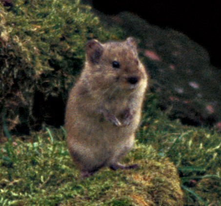 Singing Vole (Microtus miurus), Hall Island.